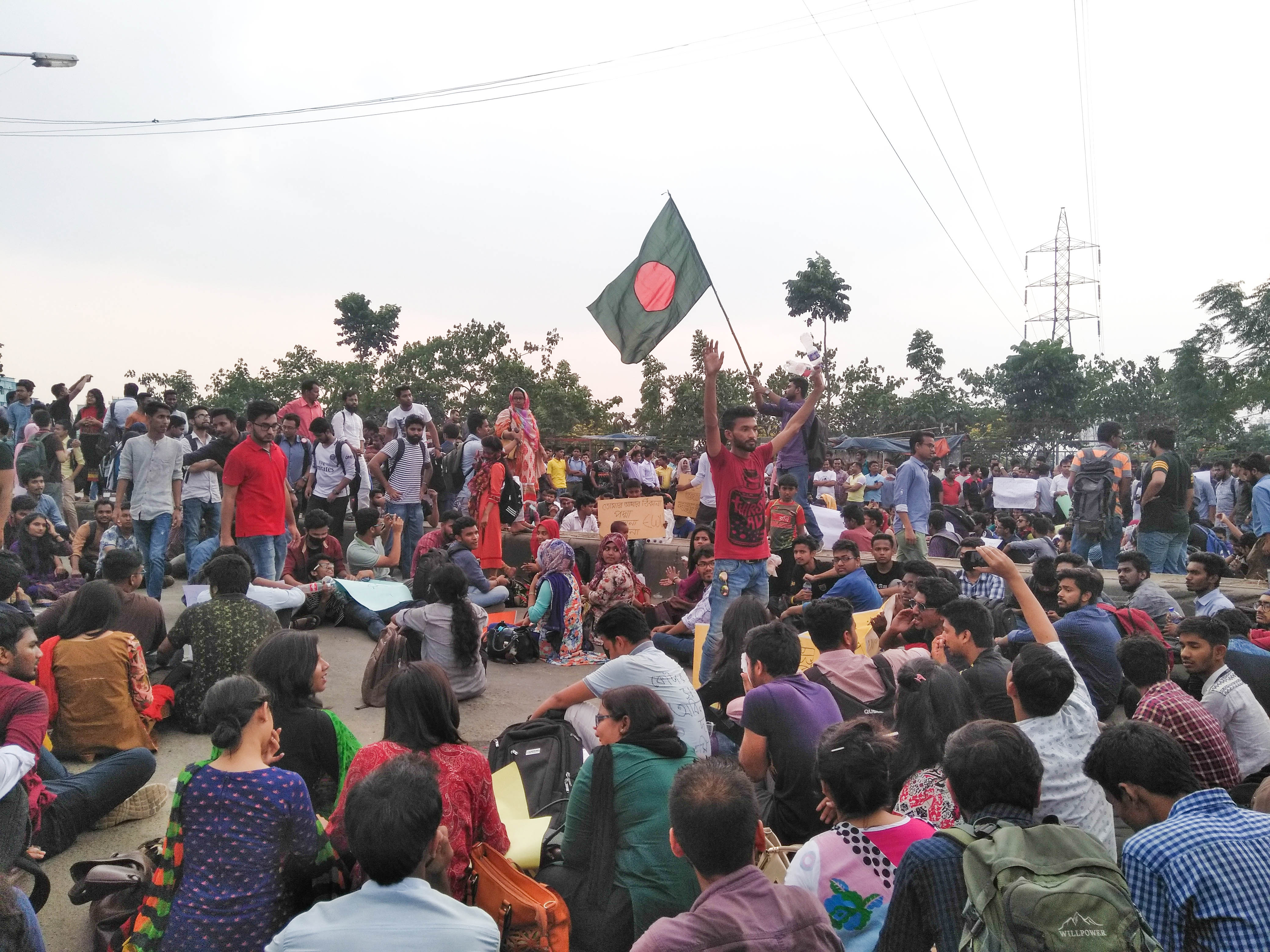 Students of Bangladesh demanding reforms in the quota system in public service, April 2018.